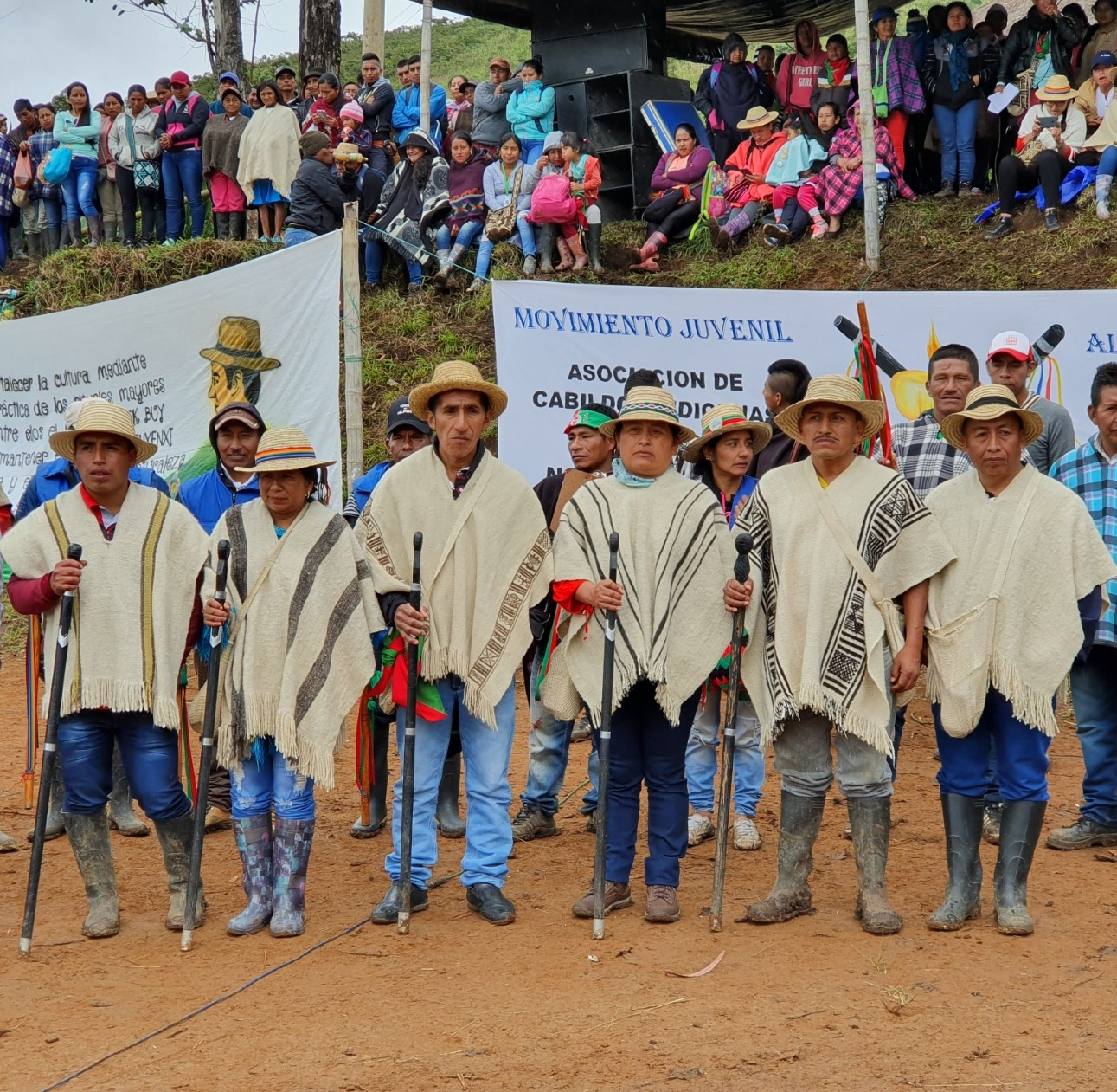 Indigenous authorities 2019 - 2021 of the indigenous people of Jambaló - Cauca - Colombia